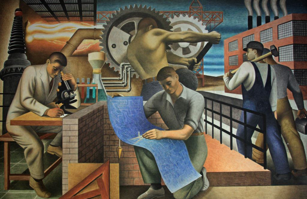 Bustling with work and activity, "The Wealth of the Nation" by Seymour Fogel is an interpretation of the theme of Social Security.